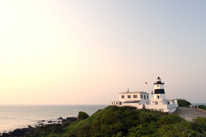 Fugueijiao Lighthouse or Fuguejiao (Fu-kuei Chiao, Fukwei Chiao, Cape Fukwei) (NGA:112-13592).